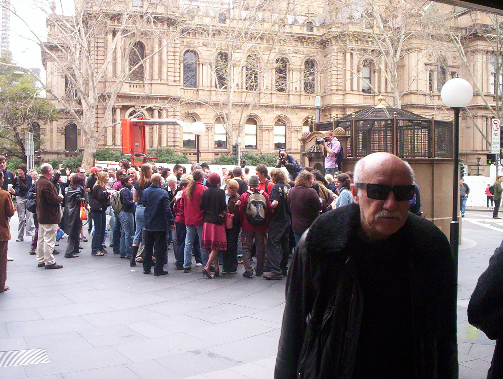 Sydmob - first flash mob in Sydney, 23 August 2003, outside Queen Victoria Building